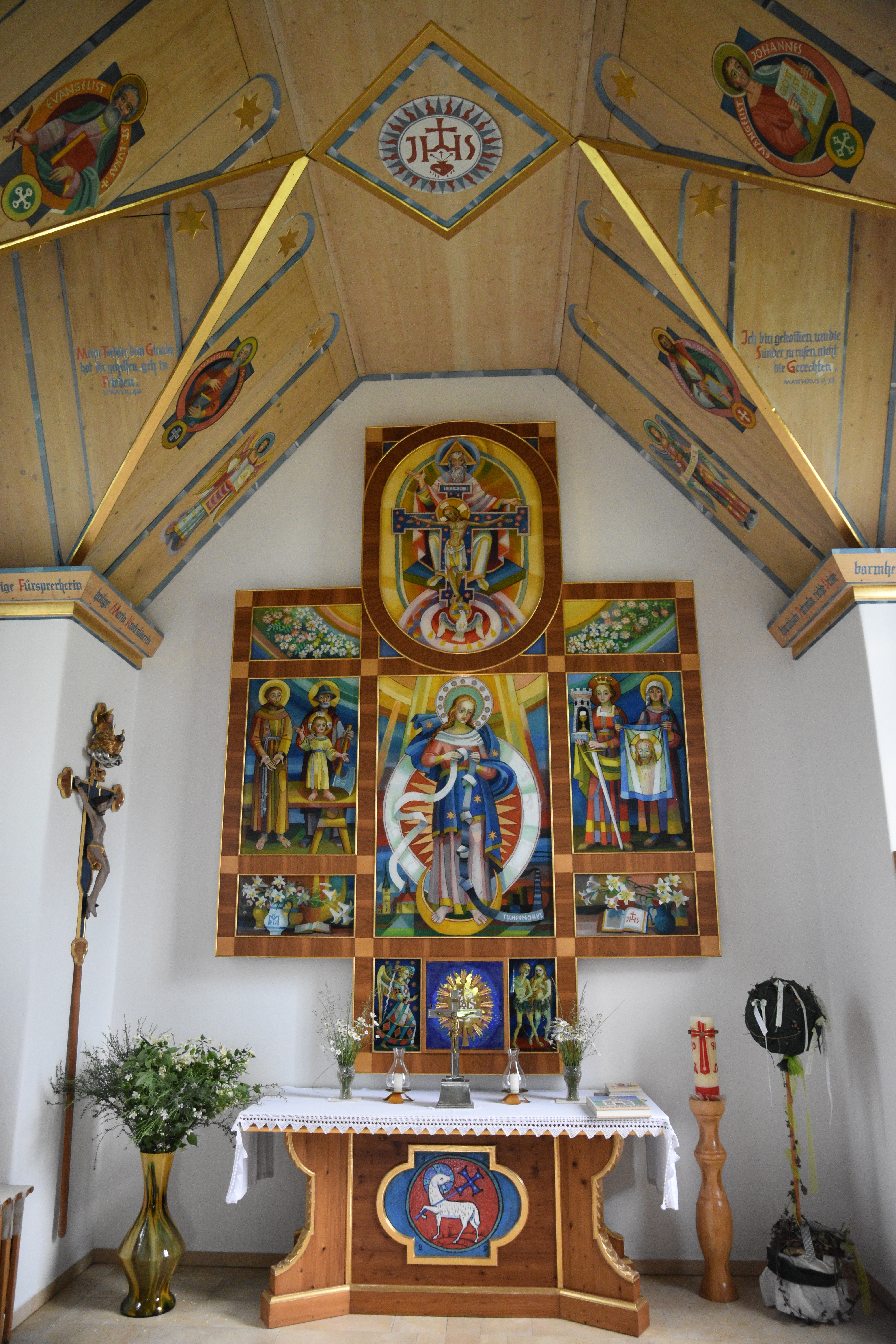 Chapel Dorfkapelle Tregist Interior